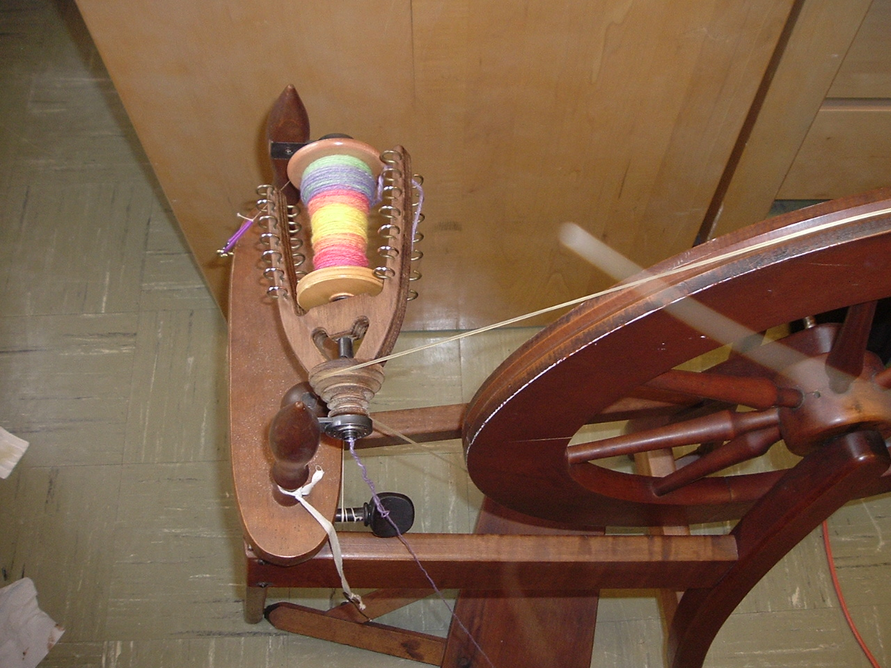 A picture of a single drive Ashford traditional wheel with Ashford lace flyer kit.